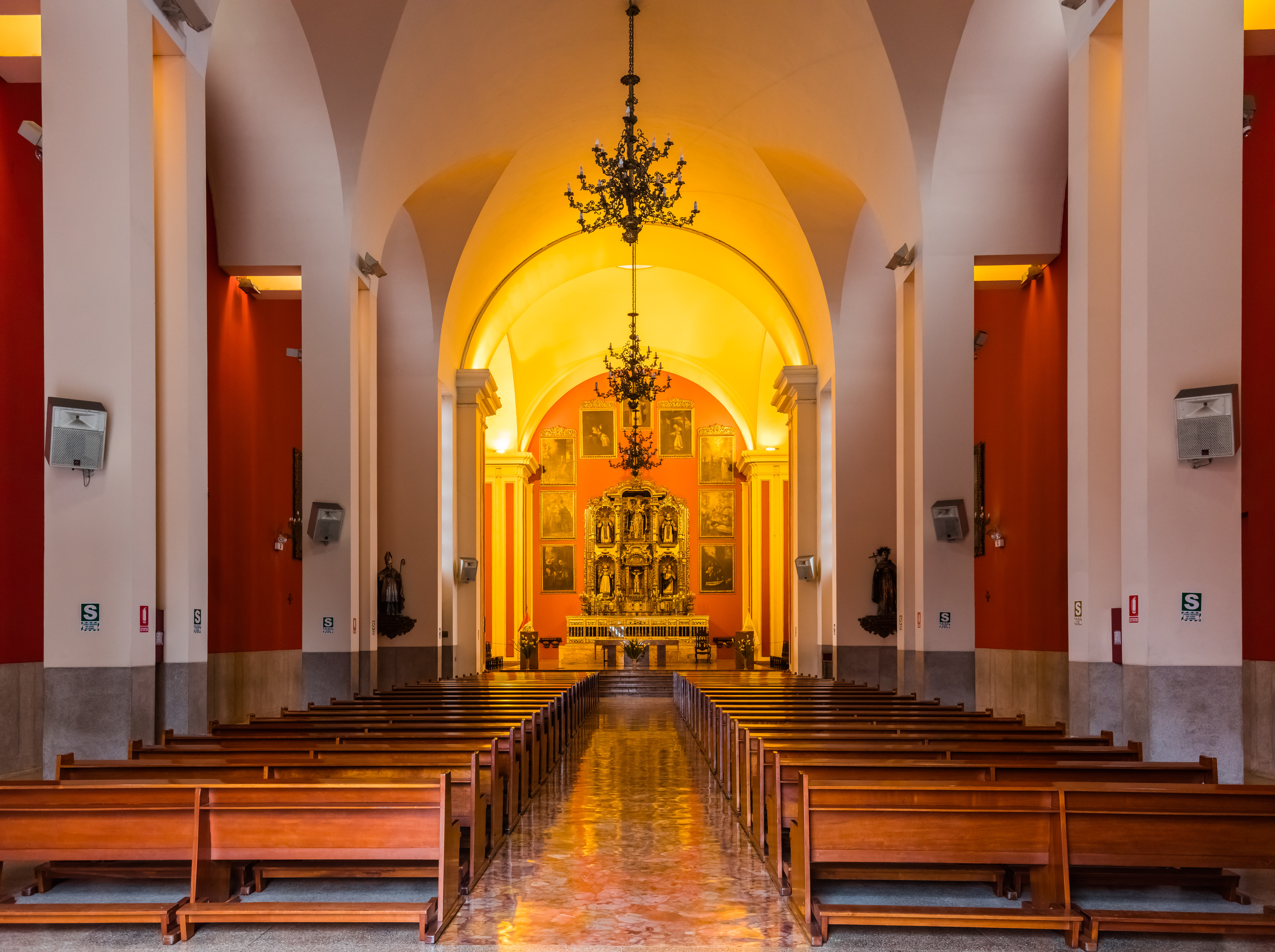 Church of St Rosa, Lima, Peru